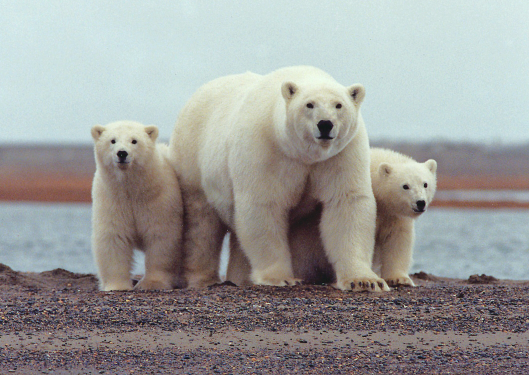 A polar bear keeps close to her young along the Beaufort Sea coast in Arctic National Wildlife Refuge. (Susanne Miller/USFWS)